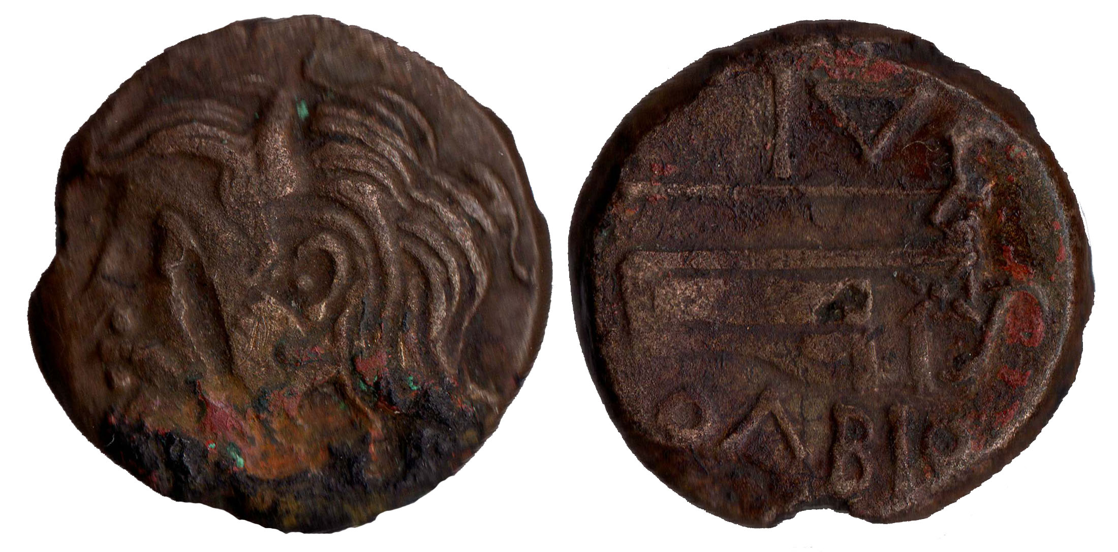 Bronze coin of Greek colony of Olbia, Sarmatia. 4-3rd Century BCE. Borysthenes (representation of Dnieper river) head left / double axe, bow in a bow case.